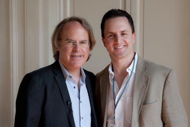 James Suckling at Divino Tuscany event with the president of IMG Artists, Jeffery Fuhrman.